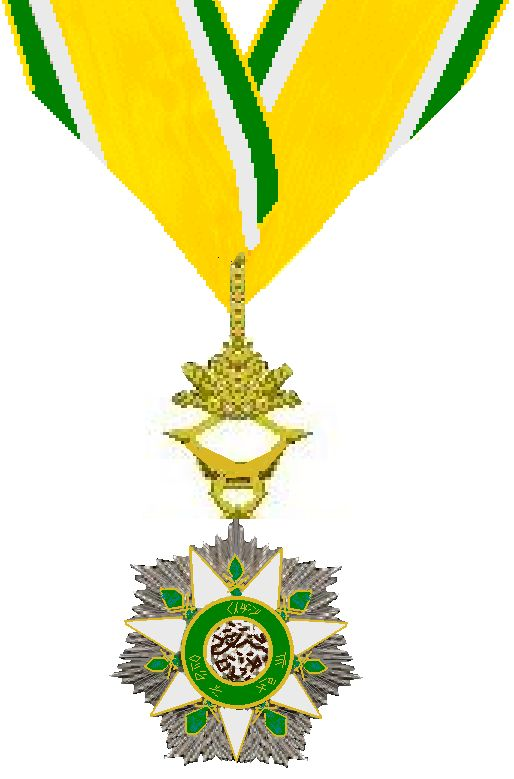 Order of Faisal